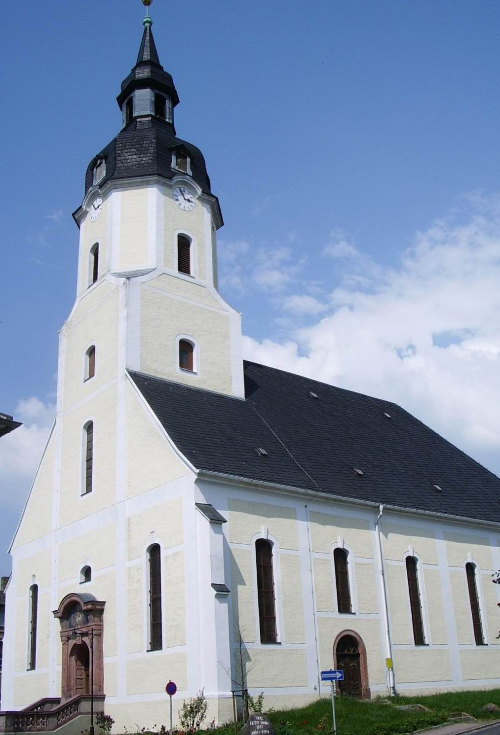 Protestant church St. Maurice in Taucha near Leipzig source: selfmade